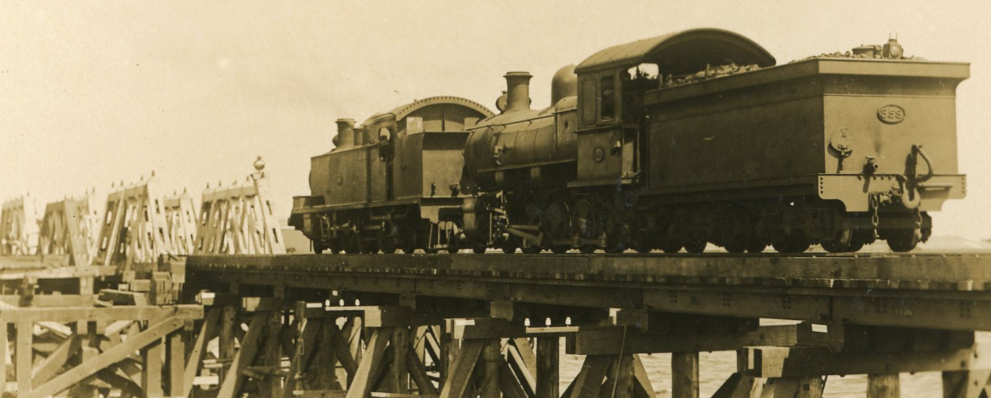 1926 load testing on rebuilt Fremantle railway bridge - see (12 October 1926). "FREMANTLE RAILWAY BRIDGE.". The West Australian XLII, (7,602): 7. Retrieved on 1 April 2019. - Locomotives in view WAGR F and D class .